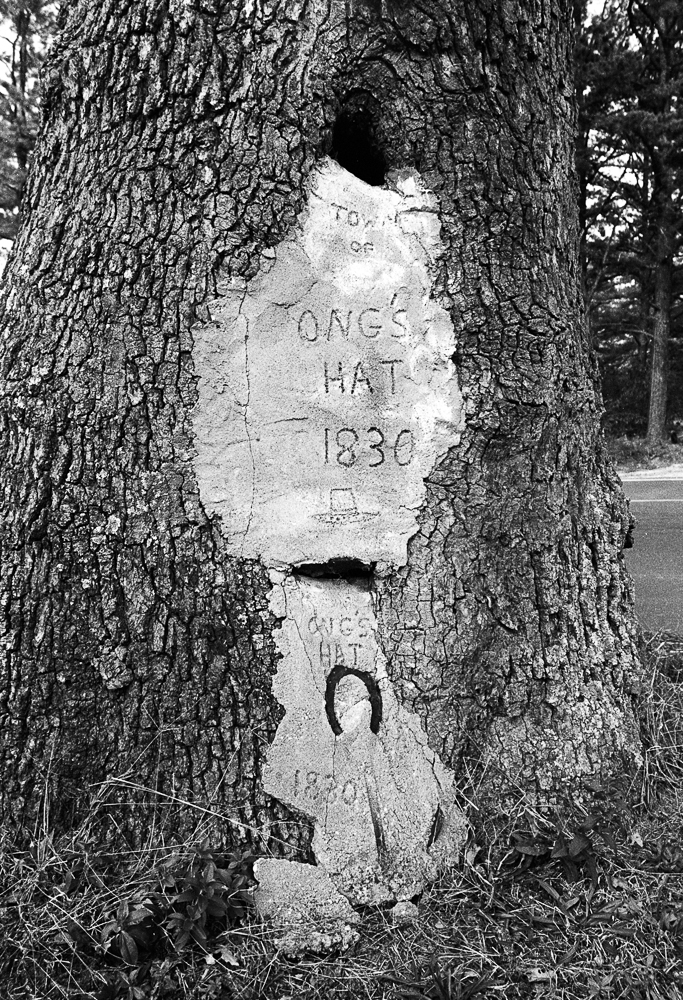 Photo taken in early 70's. The tree is no longer there.